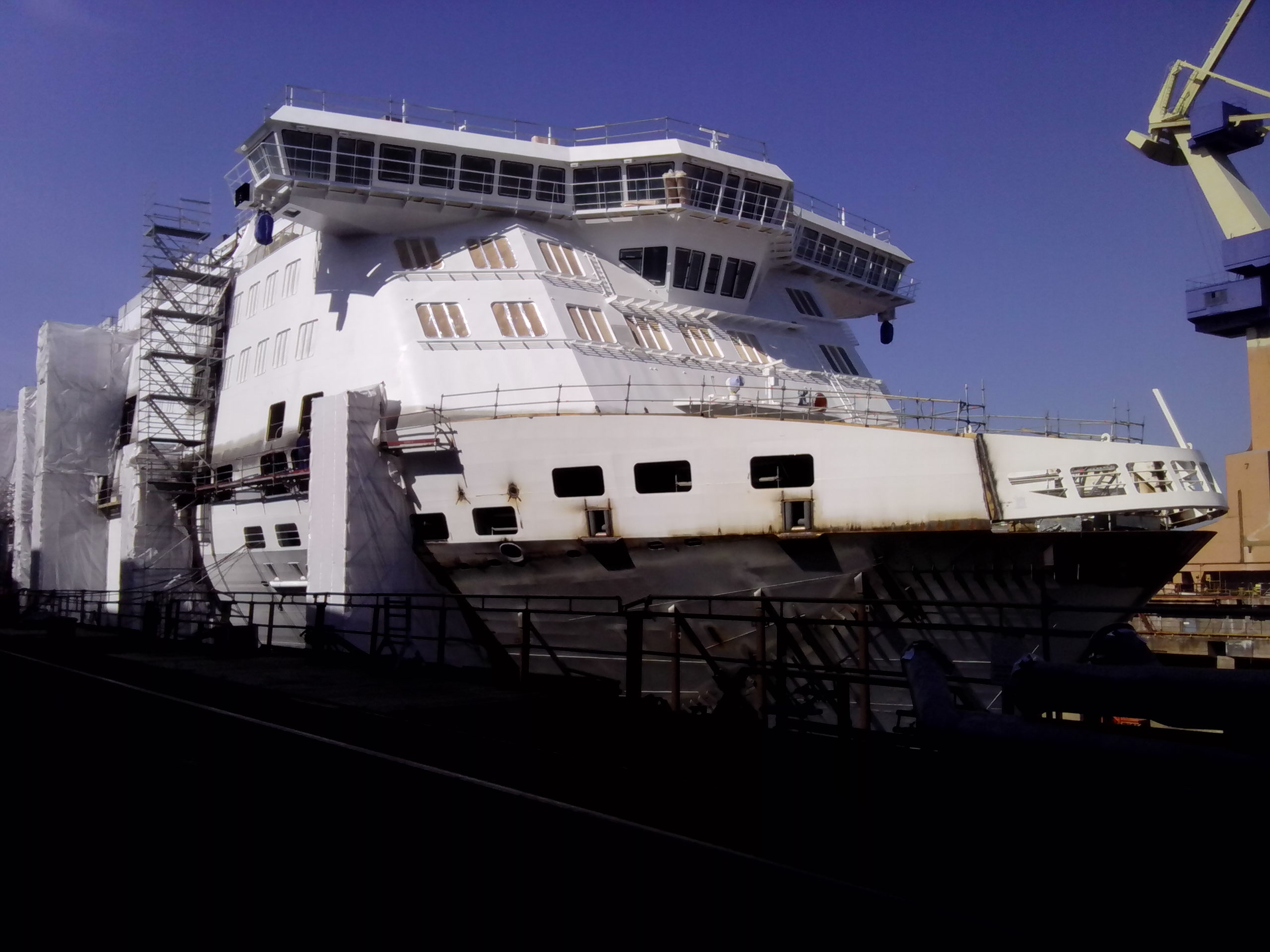 MS Megastar (Tallink) in a stage of construction at Meyer Turku shipyard, Finland, 3 Jun 2016